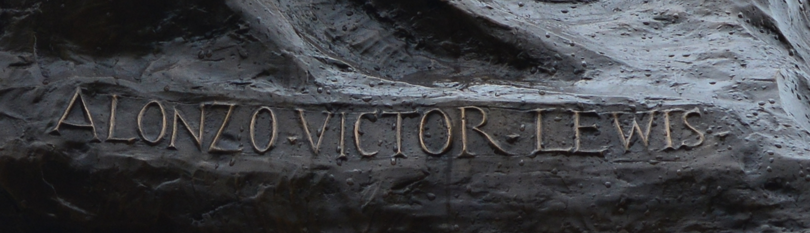 Name of sculptor Alonzo Victor Lewis inscribed on his statue Winged Victory, Washington State Capitol complex, Olympia, Washington.